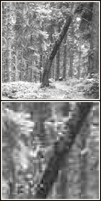 Example of JPEG compression artifacts. Highly compressed JPEG images have compression artifacts as squares of 8x8 pixel size. Top: original size; bottom: zoomed detail.